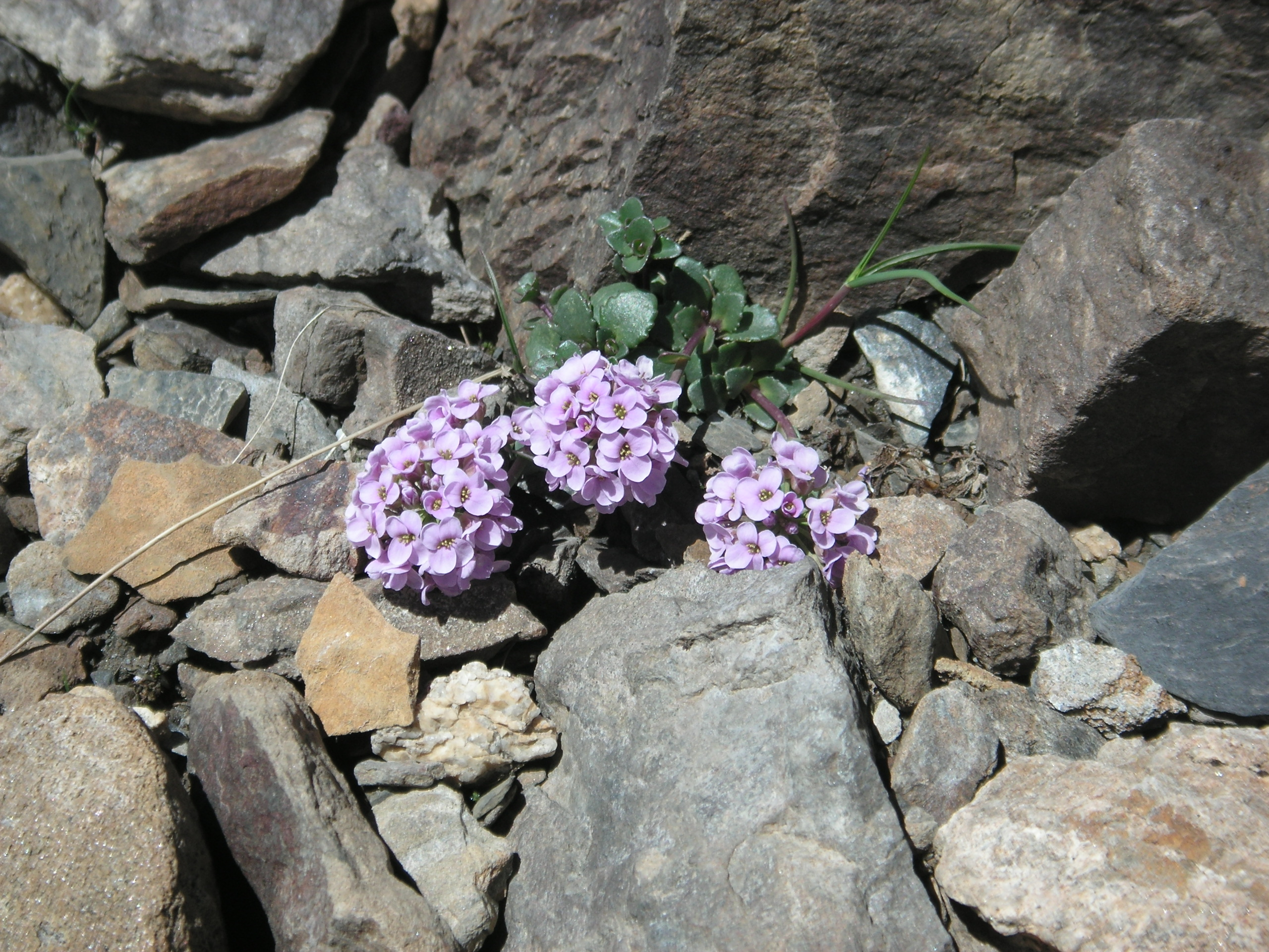 Thlaspi rotundifolium s.l. (Brassicaceae); Ferdenpass, Canton of Valais, Switzerland